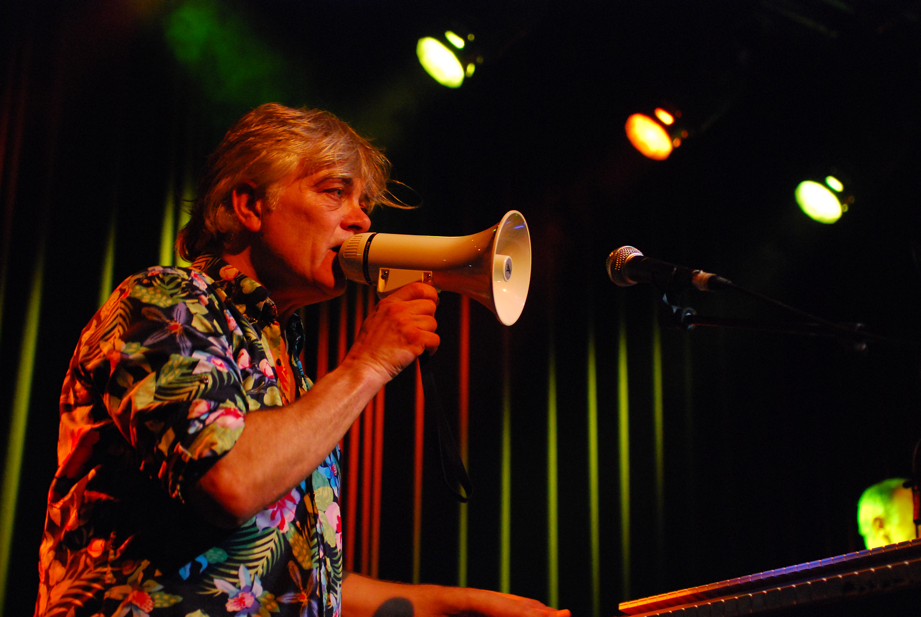 Robert Jan Stips Nits 27-11-09